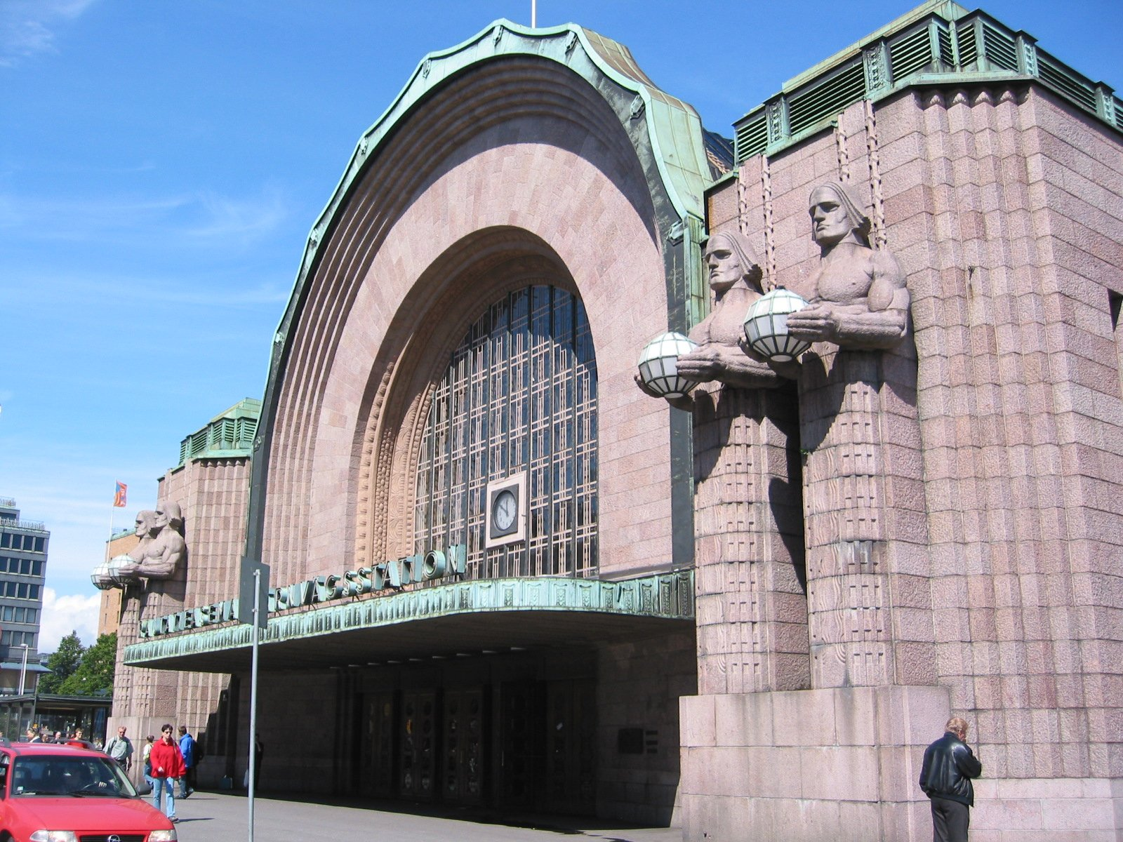 The main entrance of Helsinki Central railway station in Helsinki, Finland. Designed by Finnish architect Eliel Saarinen in 1904.